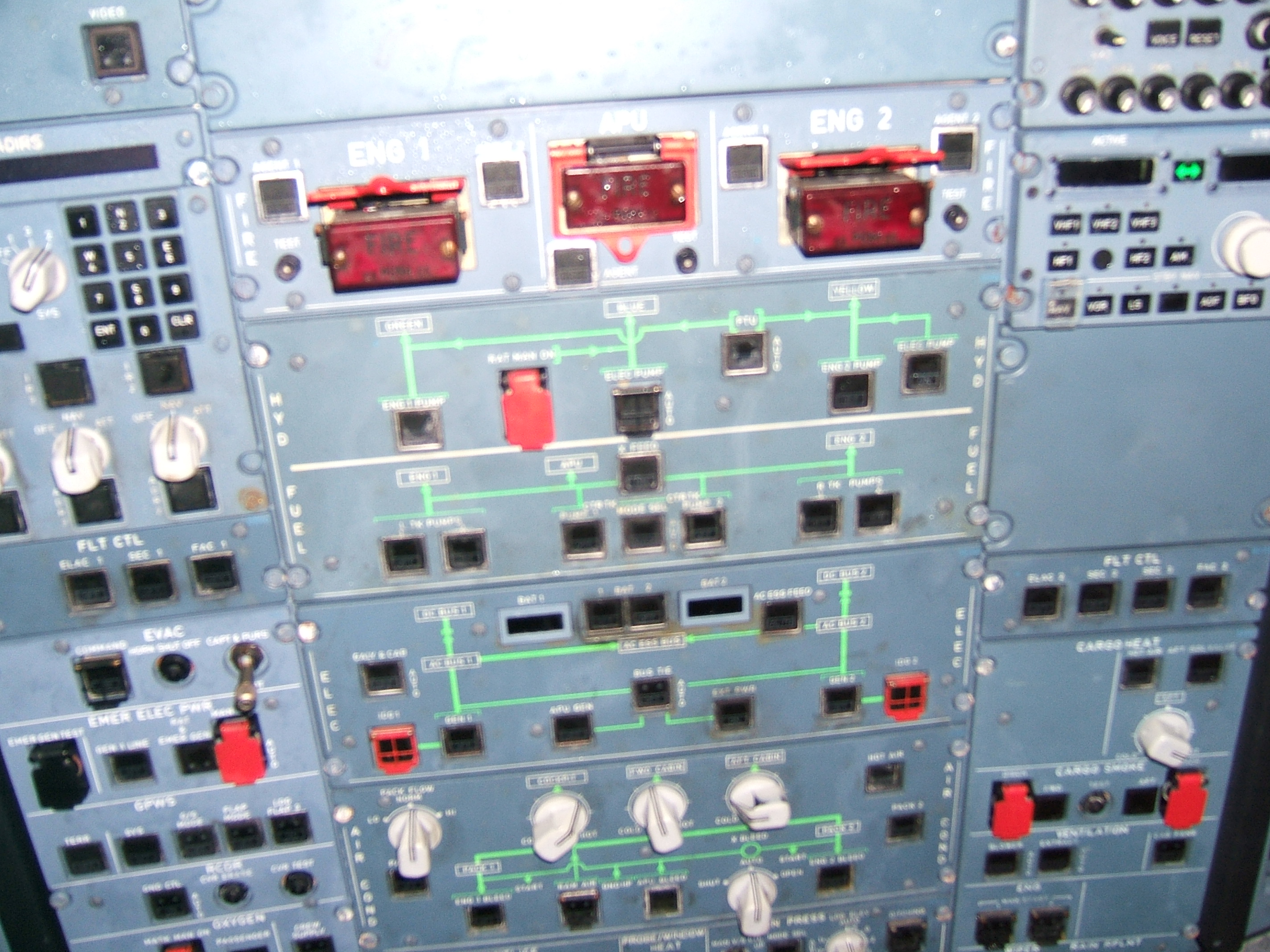 Overhead pannel in the cockpit of N106US photographed by Shawn Dorsch 2.25.2011